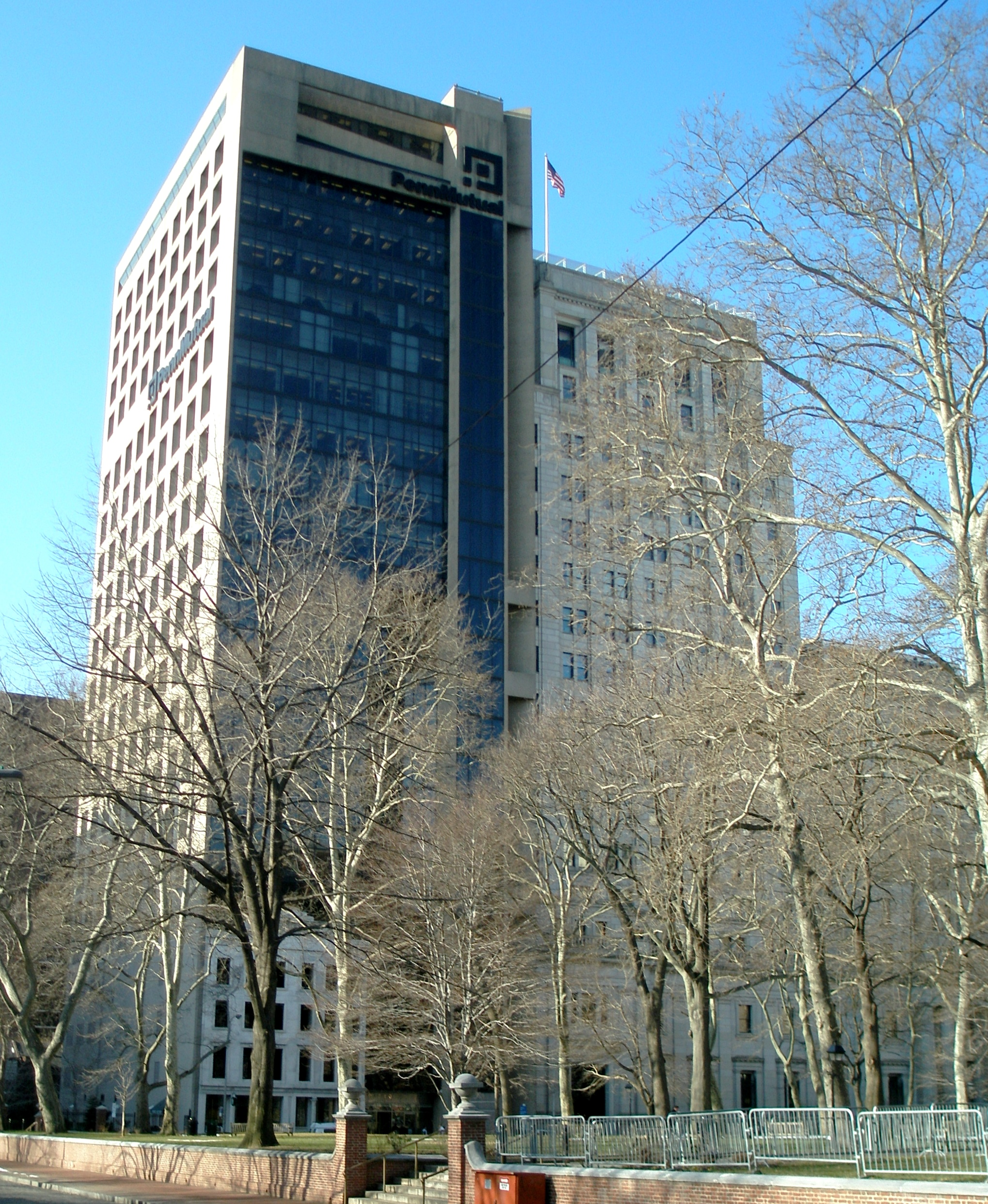 The Penn Mutual Life Insurance Company was founded in Philadelphia, Pennsylvania in 1847. It was the seventh mutual life insurance company chartered in the United States. Their original Philadelphia headquarters building at the corner of Walnut and 6th Streets was a cast-iron structure that was replaced in 1913 by one designed by Edgar Seeler. This was added to on the east side in 1931, and again in 1969-710 by a glass tower at 510 Walnut Street which retained the 1838 Egyptian Revival facade of John Haviland's Pennsylvania Fire Insurance Company Building, the east portion and cornice of which was designed by Theophilus Chandler in 1901, as a stand-alone structure which serves as a screen to the building's entrance courtyard. The tower, which won on AIA Honor Award in 1977, was designed by Mitchell/Giurgola Associates. (Sources: Philadelphia Architecture: A Guide to the City (2nd ed.), "Washington Square" on and "Penn Mutual Tower" on ) In this image, the 1975 tower is on the left, with the 1931 addition to the right. The 1913 building is to the right of that, hidden by the trees. Also somewhat hidden is the free-standing facade of the Fire Insurance Company Building, the white part at the base of the tower.